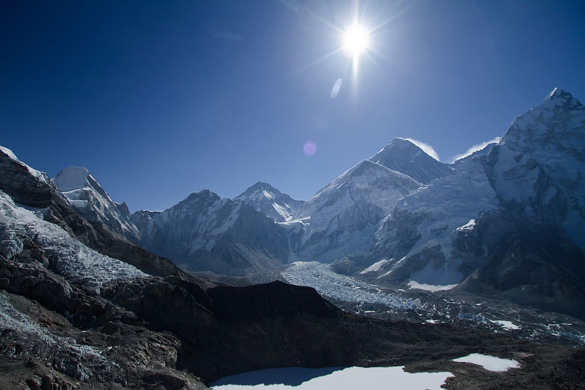 photo taken on the Mount Everest Base Camp Trek - day 9 - Gorak Shep to Pheriche